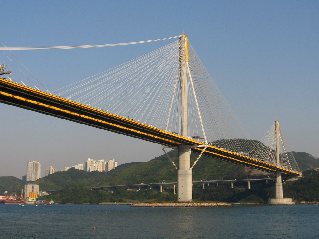 The Ting Kau Bridge is a 1,177-metre long cable-stayed bridge in Hong Kong that spans from the northwest of Tsing Yi Island and Tuen Mun Road